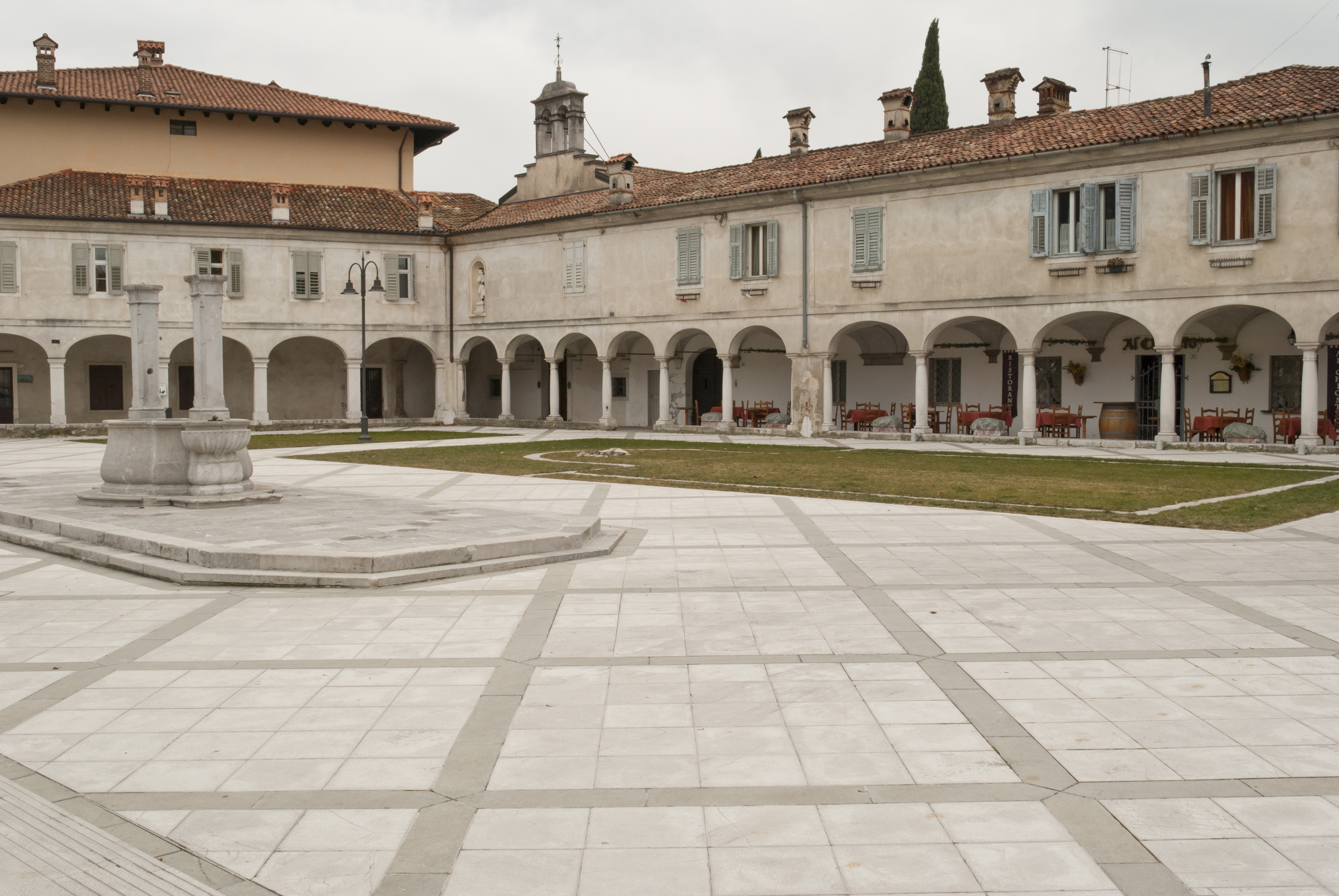 Church sant'Antonio (Anthony of Padua) in its square, Gorizia.